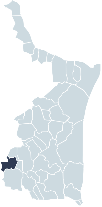 Municipality of Bustamante Tamaulipas